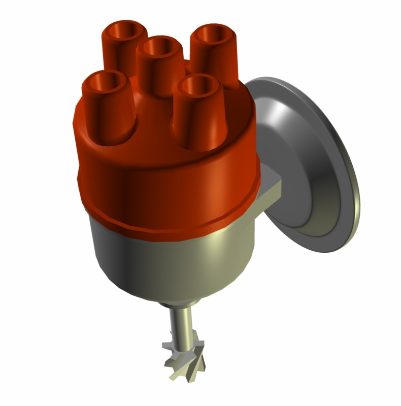 Computer model of distributor